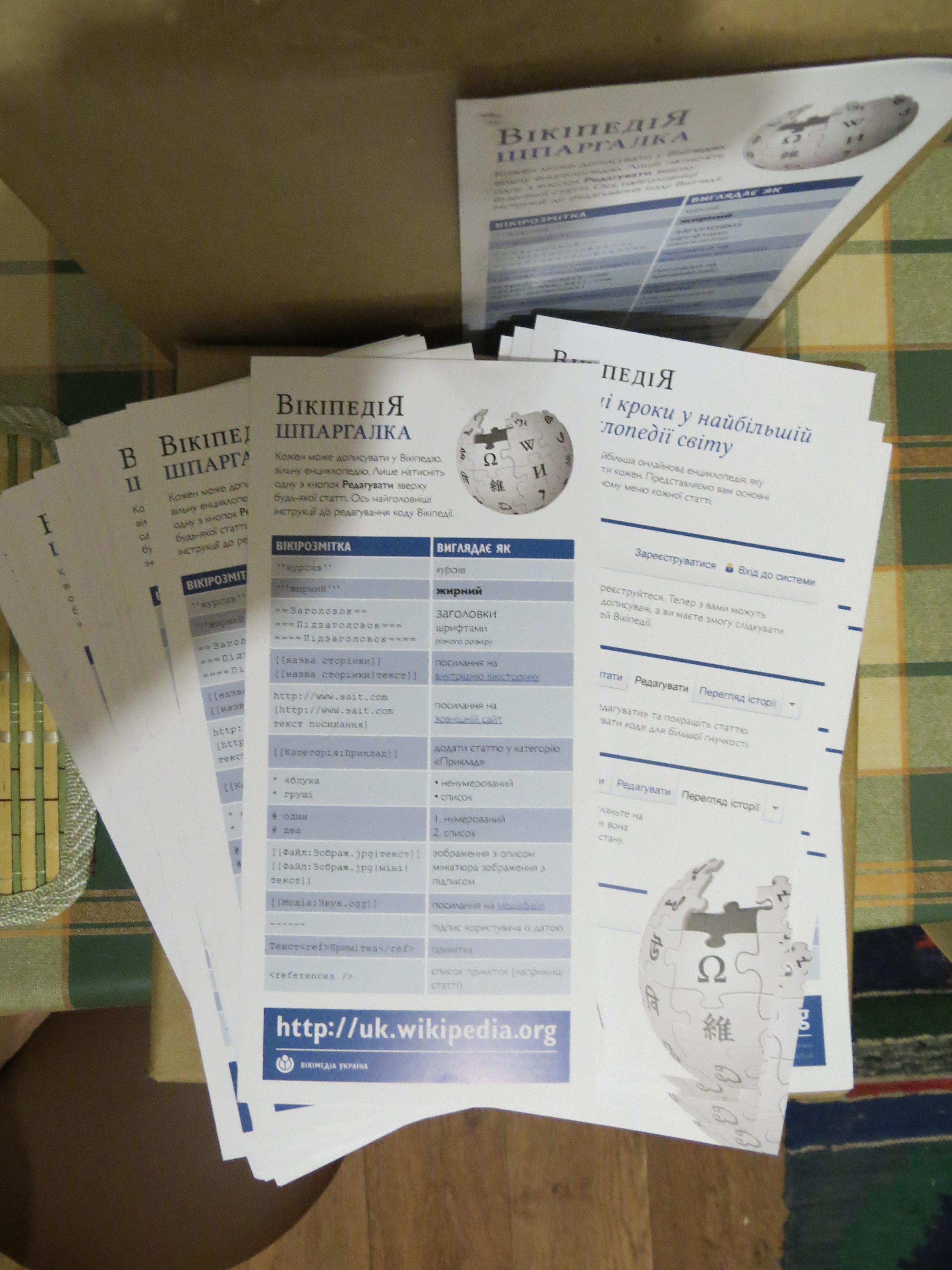 Wikipedia Cheatsheet (in Ukrainian)